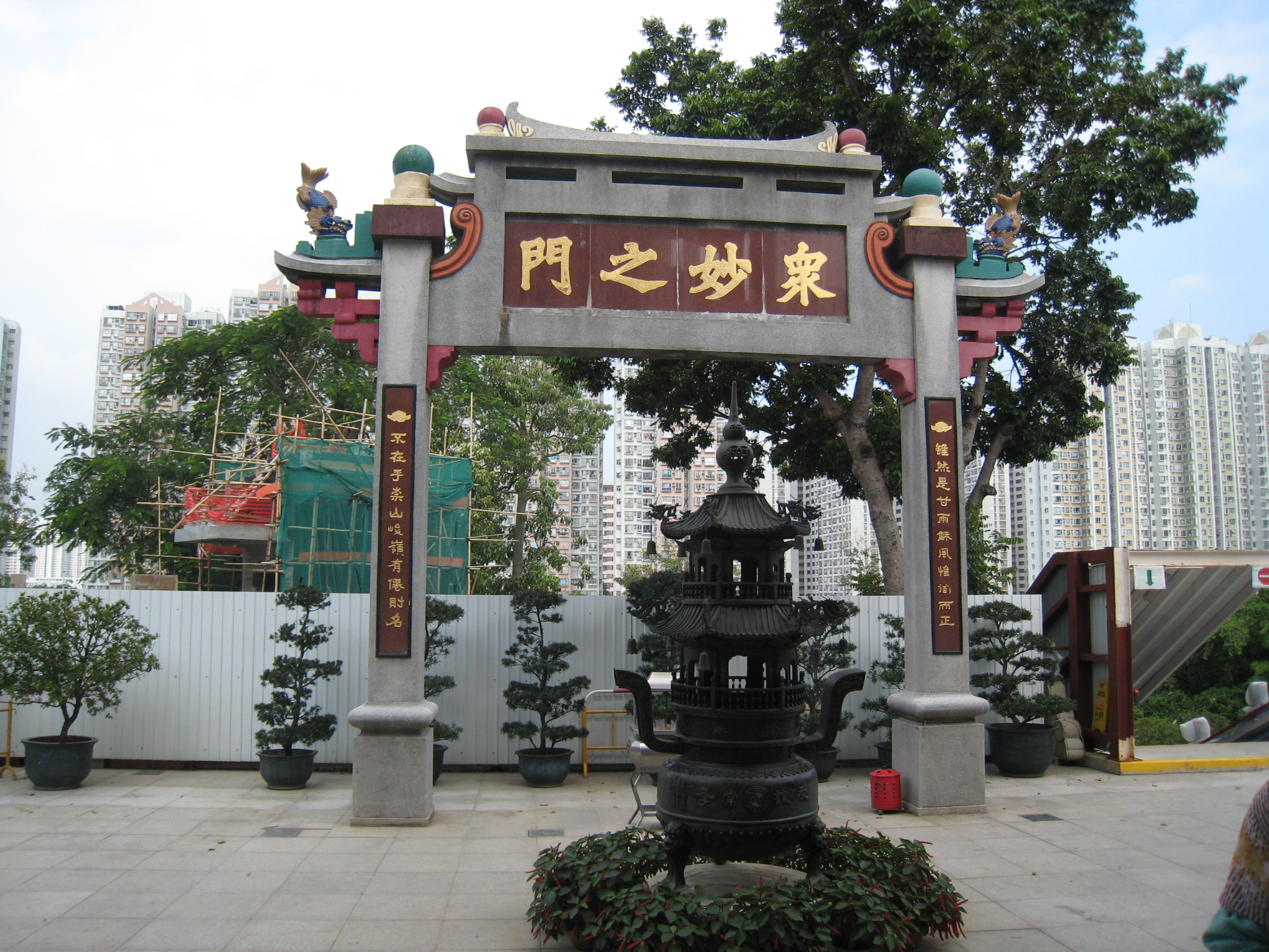 a paifang in Hongkong